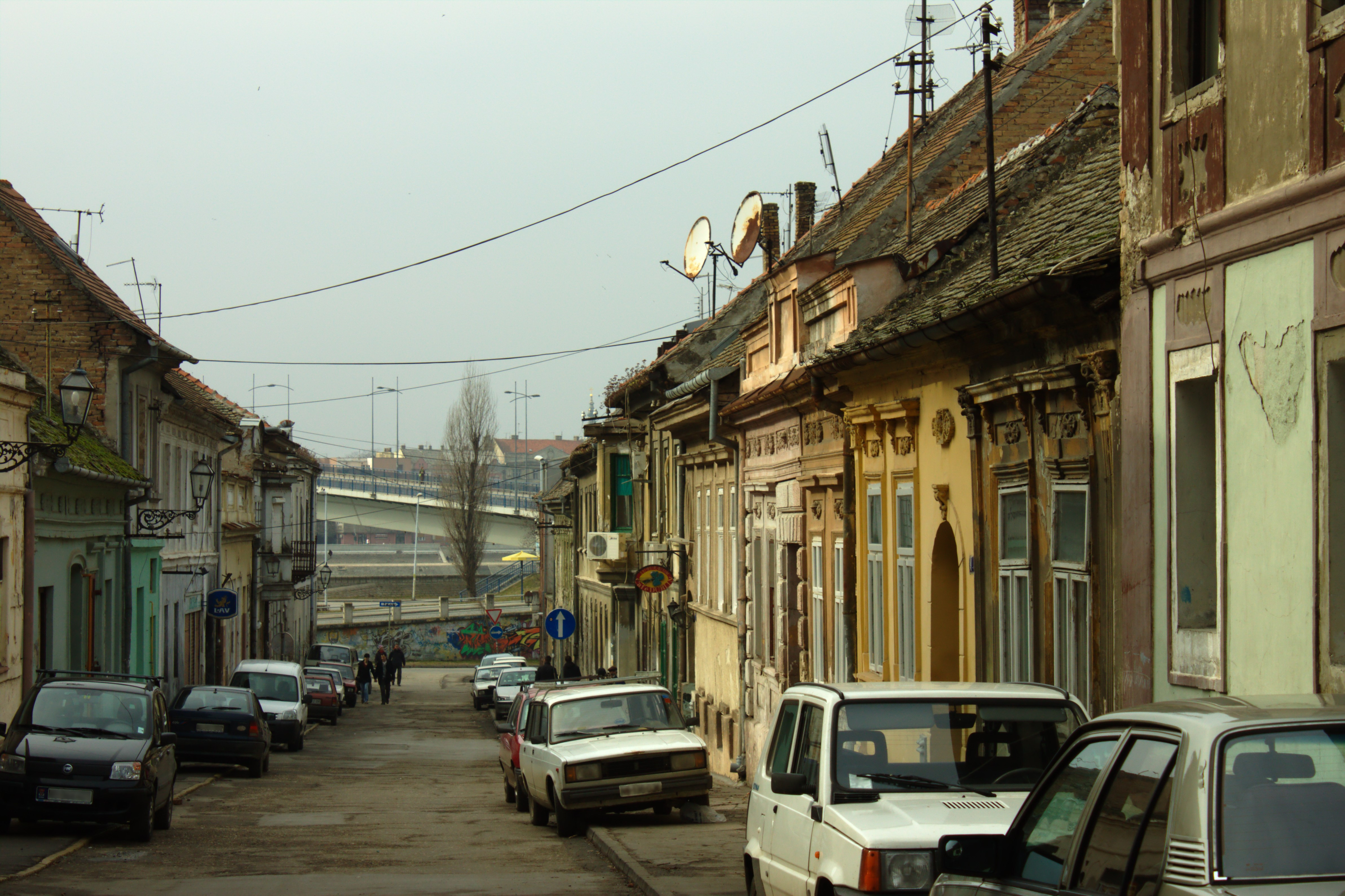 A street in Petrovaradin, Serbia